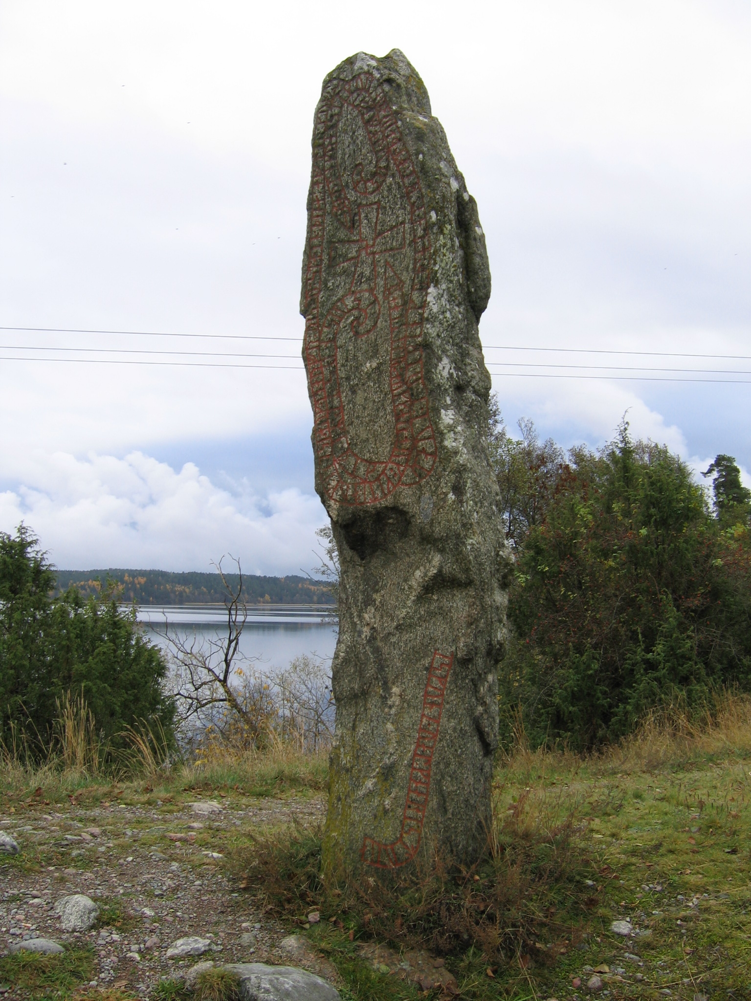 Runic inscriptions of Uppland number 654, Varpsund, Övergran parish.